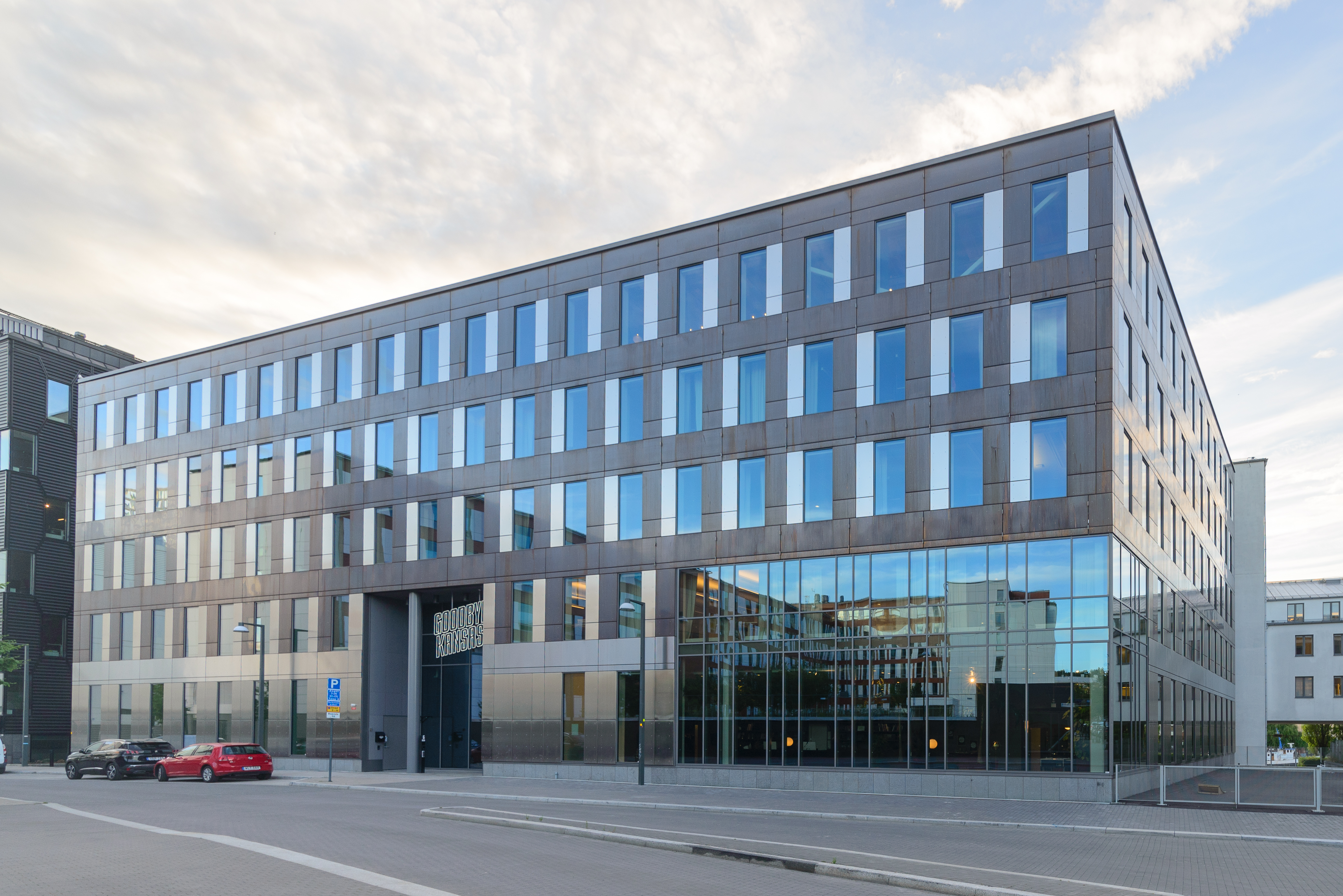 HQ for Goodbye Kansas in Hammarbyhamnen, Stockholm.